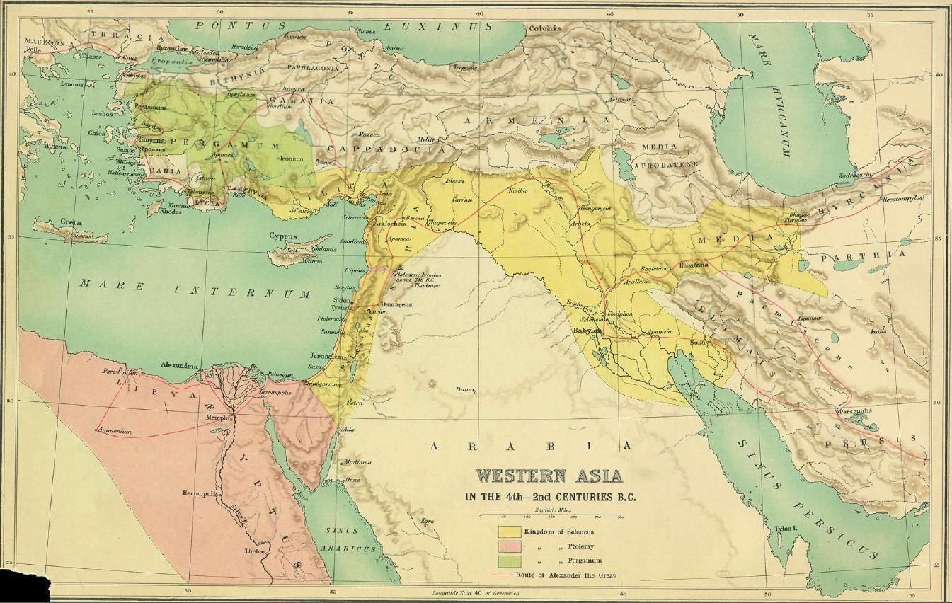 Western Asia — in the 4th-2nd centuries BCE. "Atlas of the Historical Geography of the Holy Land" — by George Adam Smith in 1915